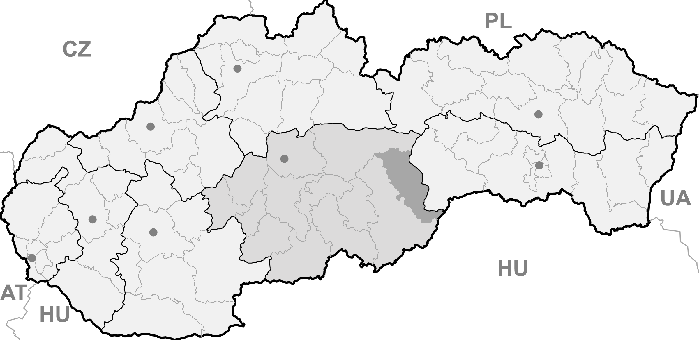 Map of Slovakia, Revúca district and Banská Bystrica region highlighted